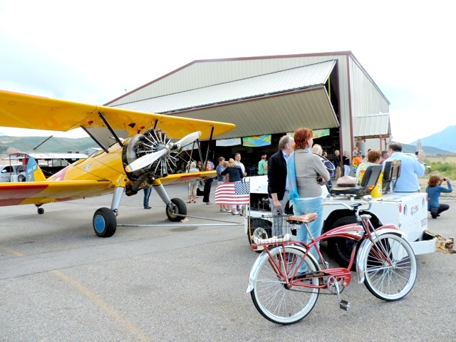 1941 Stearman biplane and visitors to the CAF Utah Wing air museum at Russ McDonald Field, Heber City Utah